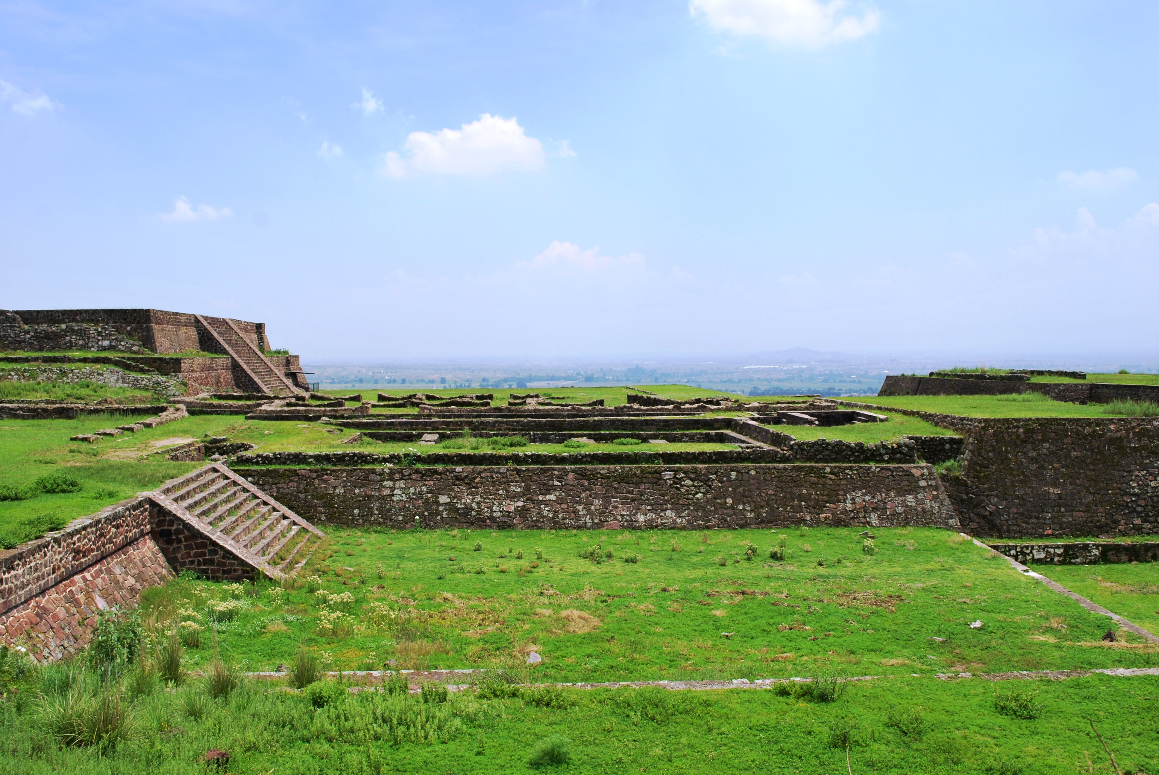 Looking north over the Plaza de la Serpiente from Ballcourt area. Pyramid de la Serpiente is to the left and in the center are remains of homes and building 1D